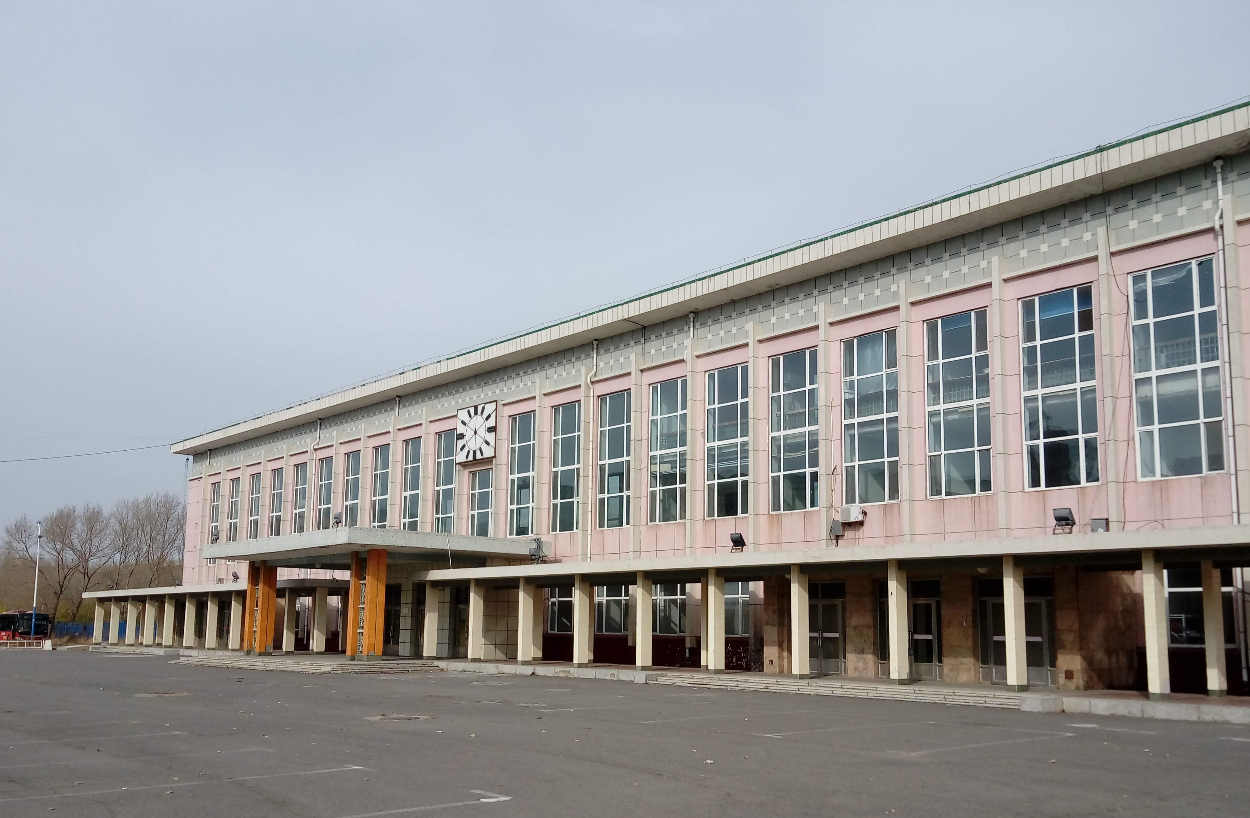 Wolitun Railway Station, Longfeng District, China.